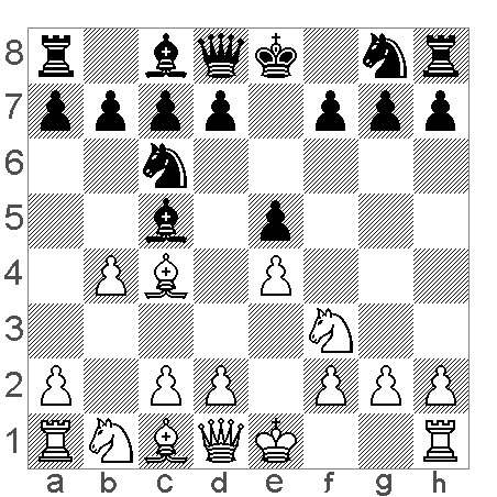 chess diagram Evans gambit Source: CBlight + my processing